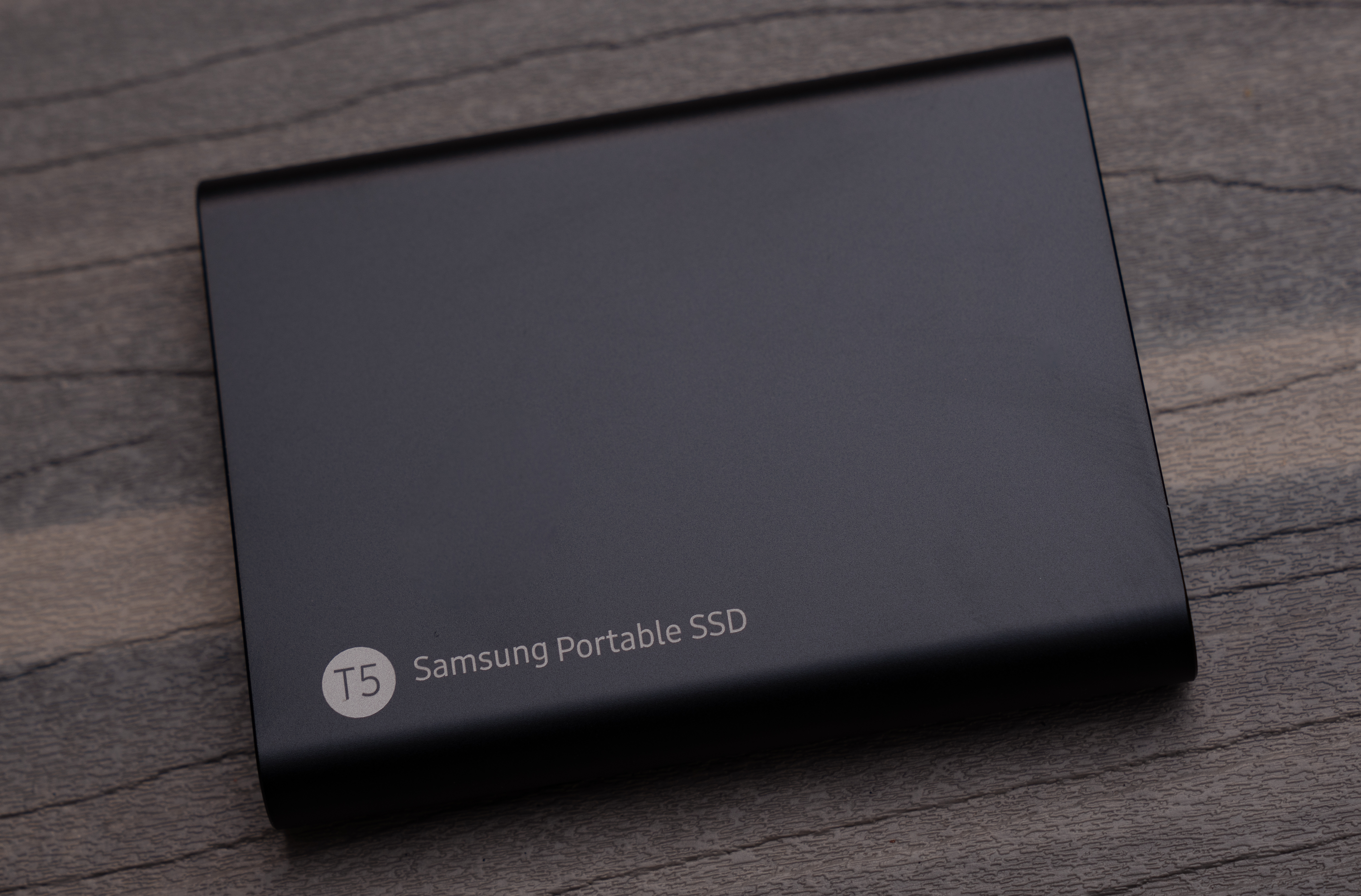 The Samsung T5 portable, external solid state drive (SSD).